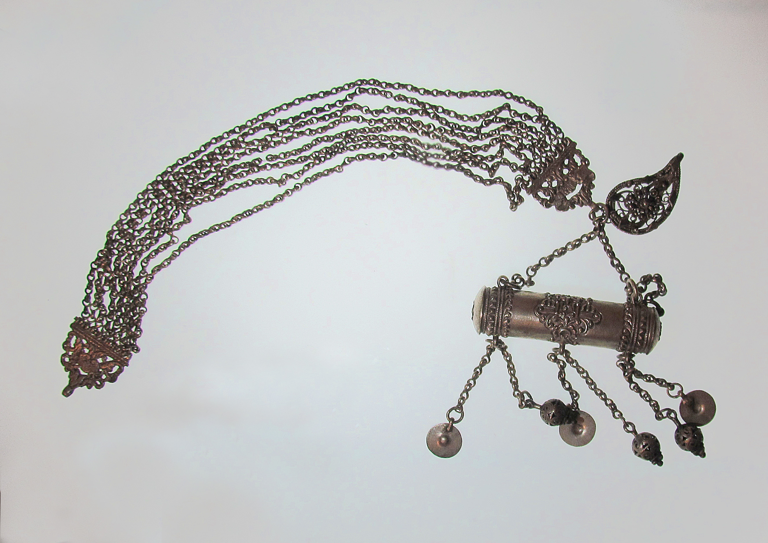 Karadorde's amulet, 18 c, Russia